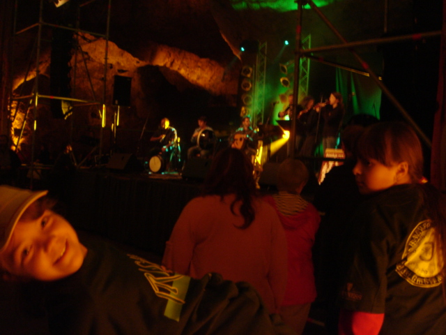 Irish Folk & Celtic Music (2005)